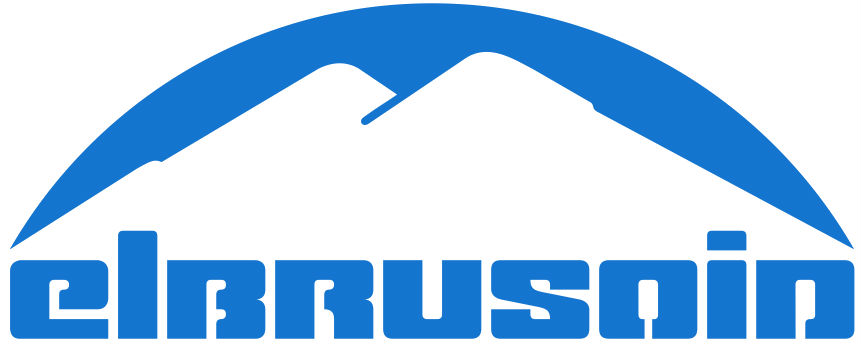 Elbrusoid foundation logo